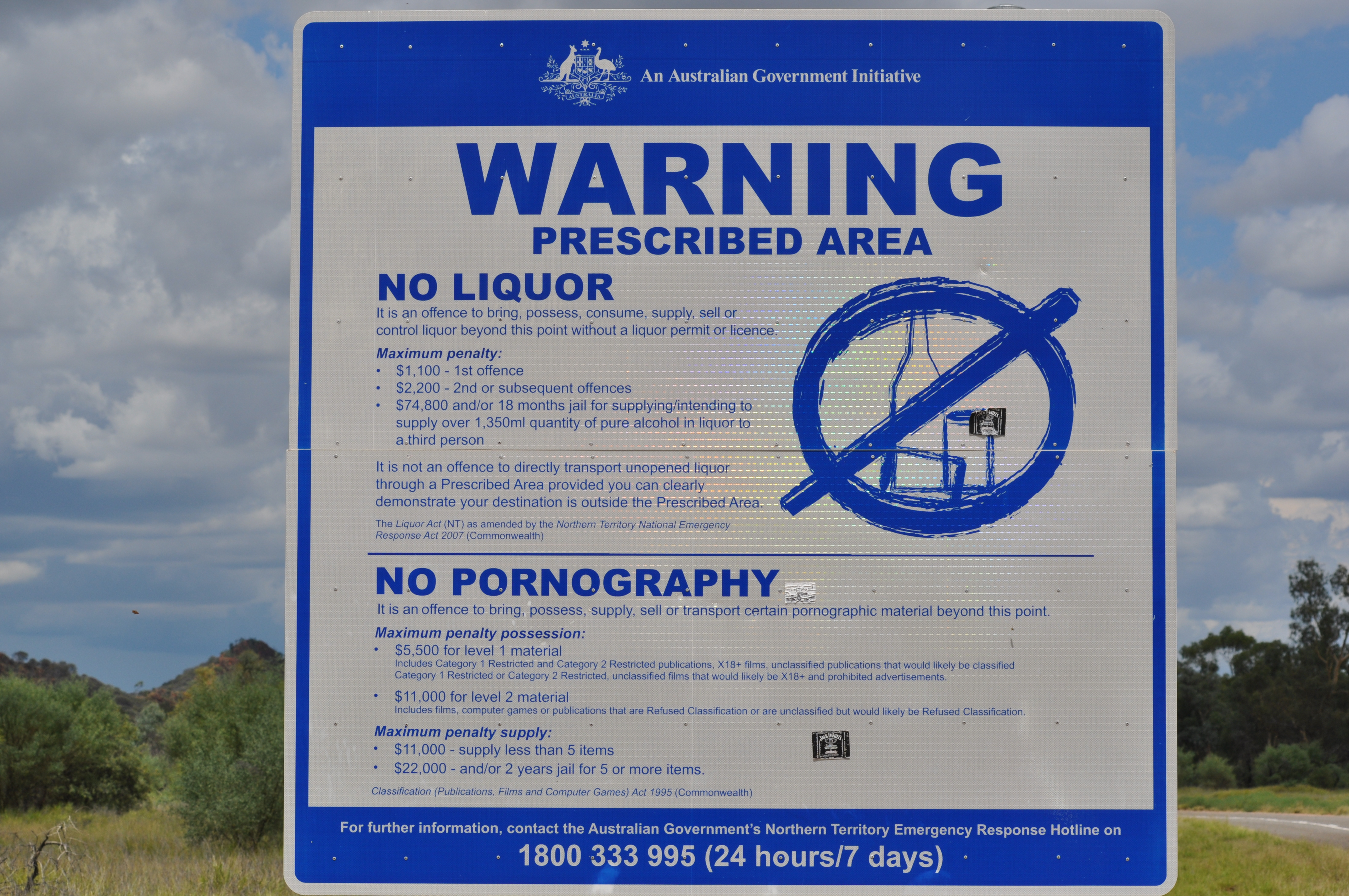 A large sign for the public's benefit detailing a few acts of criminally offensive conduct in the Northern Territory. This is a part of the Northern Territory Intervention effort initiated by the Commonwealth of Australia in order to tackle systemic issues facing Northern Territory citizens and residents.